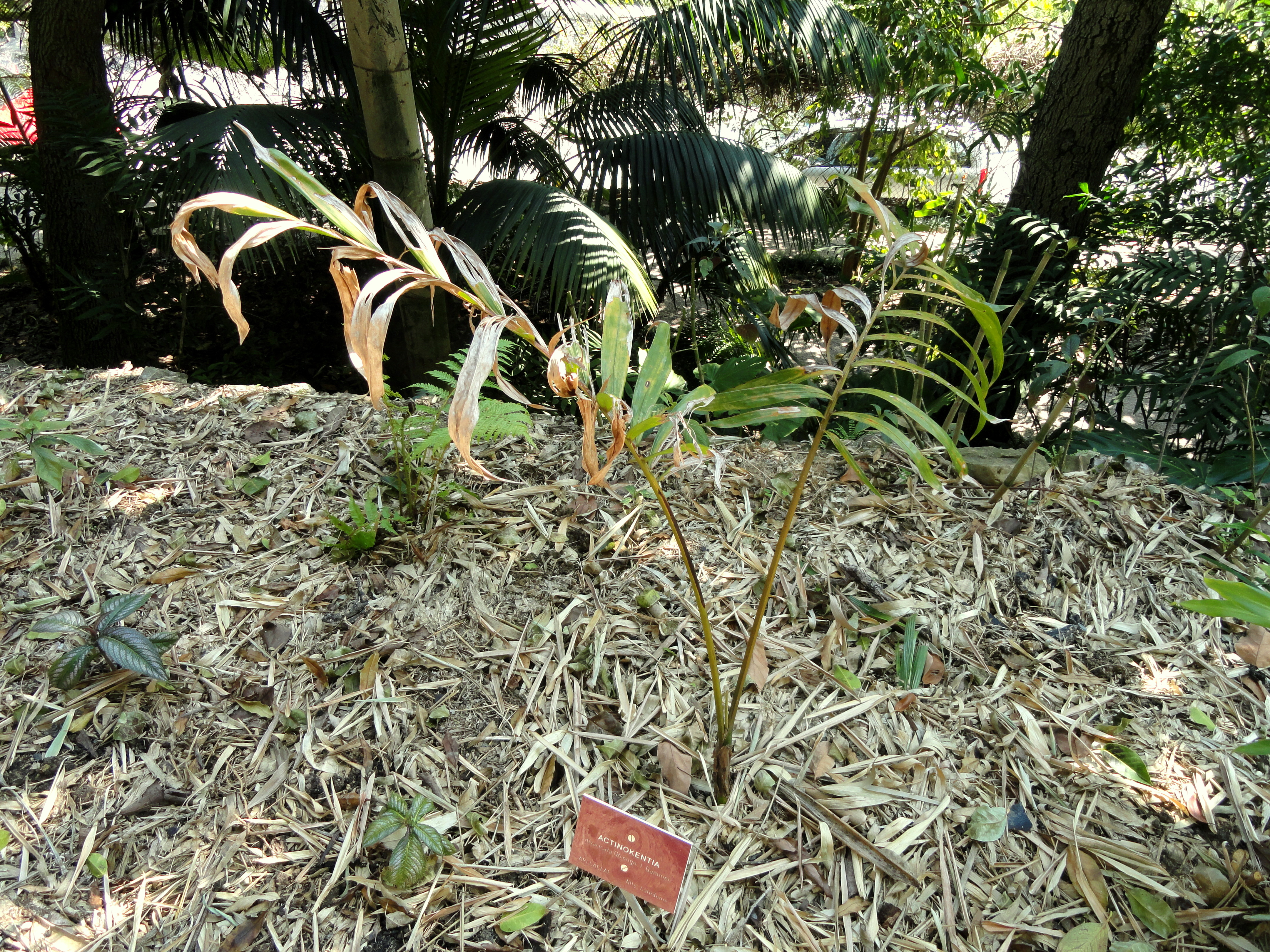 Actinokentia divaricata specimen in the Jardin botanique du Val Rahmeh, Menton, Alpes-Maritimes, France.